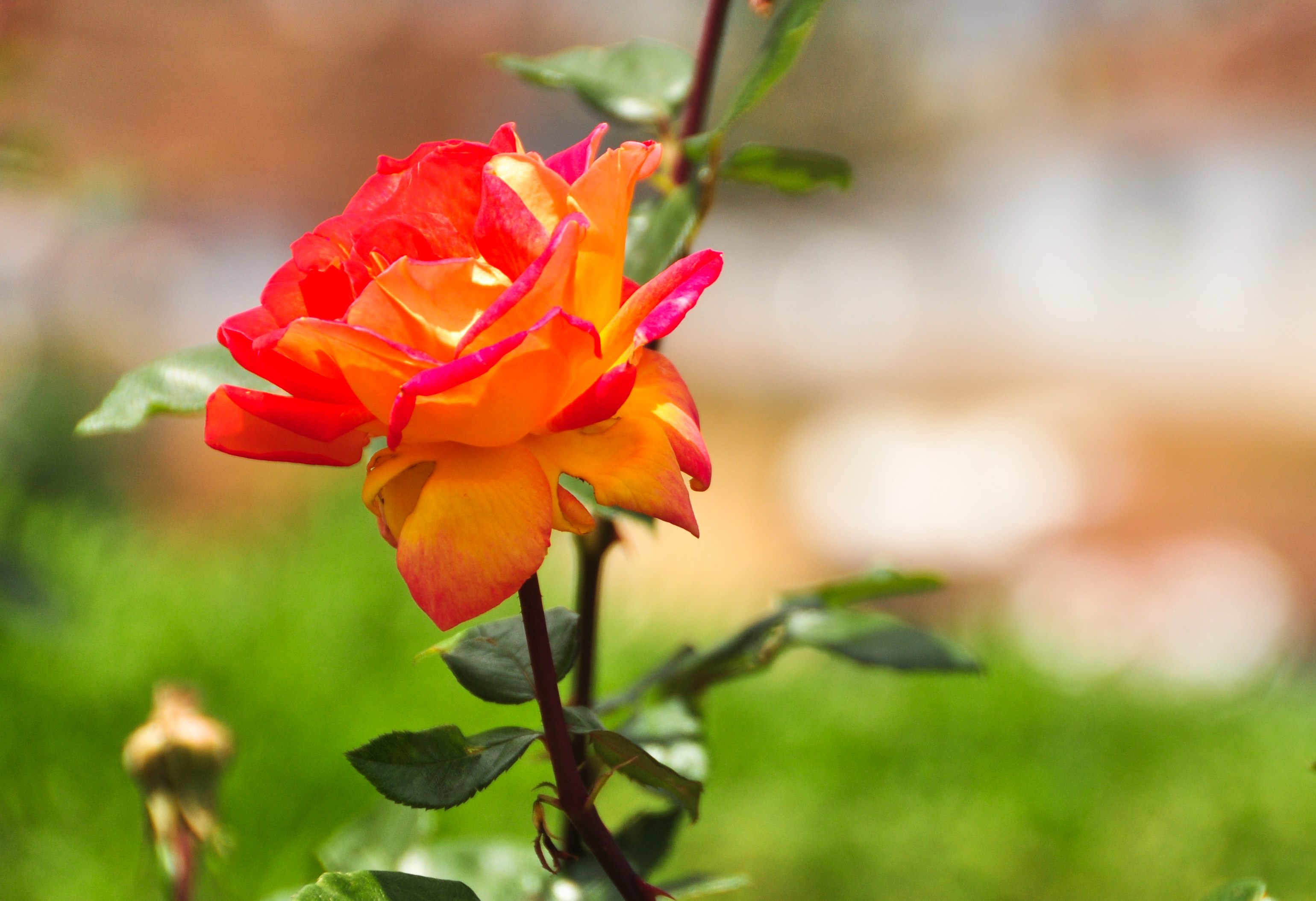 Madame Dieudonné Origin: Bred by Francis Meilland (France, 1947). Class: Hybrid Tea / Large-Flowered. Bloom: Red blend, yellow reverse. Strong fragrance. 30 petals. Average diameter 5". Large, double (17-25 petals), high-centered bloom form. Blooms in flushes throughout the season.